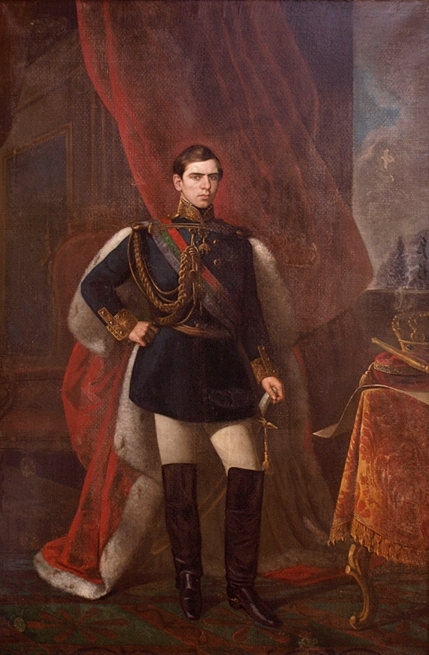 Portrait of Pedro V of Portugal (1837-1861)